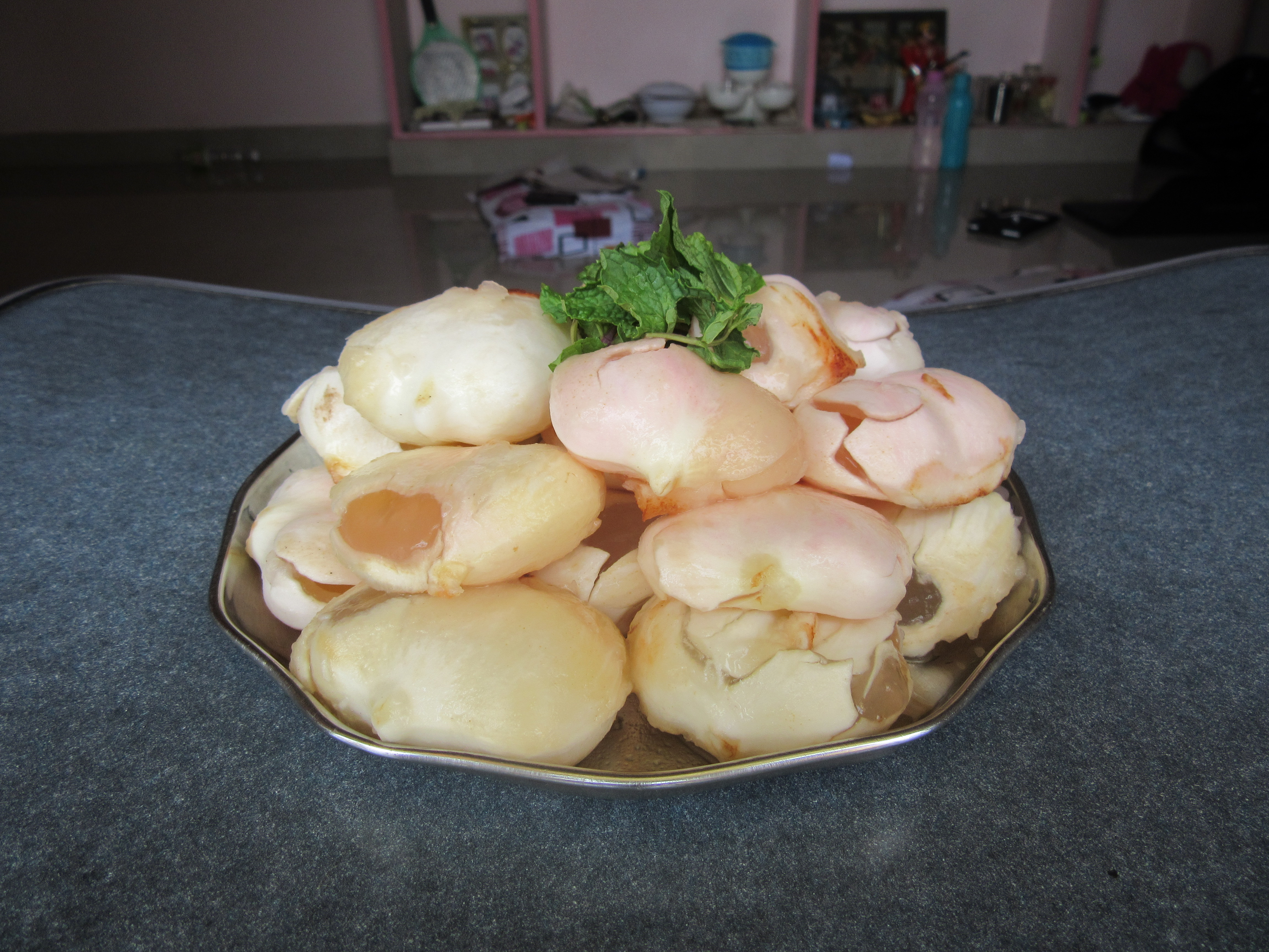 Edible jelly seeds of Palmyra Palm